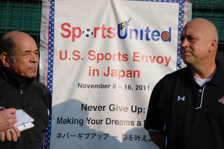 Cal Ripken is reunited with his longtime friend, Mr. Sachio Kinugasa, Japan’s own “Iron Man” of baseball.